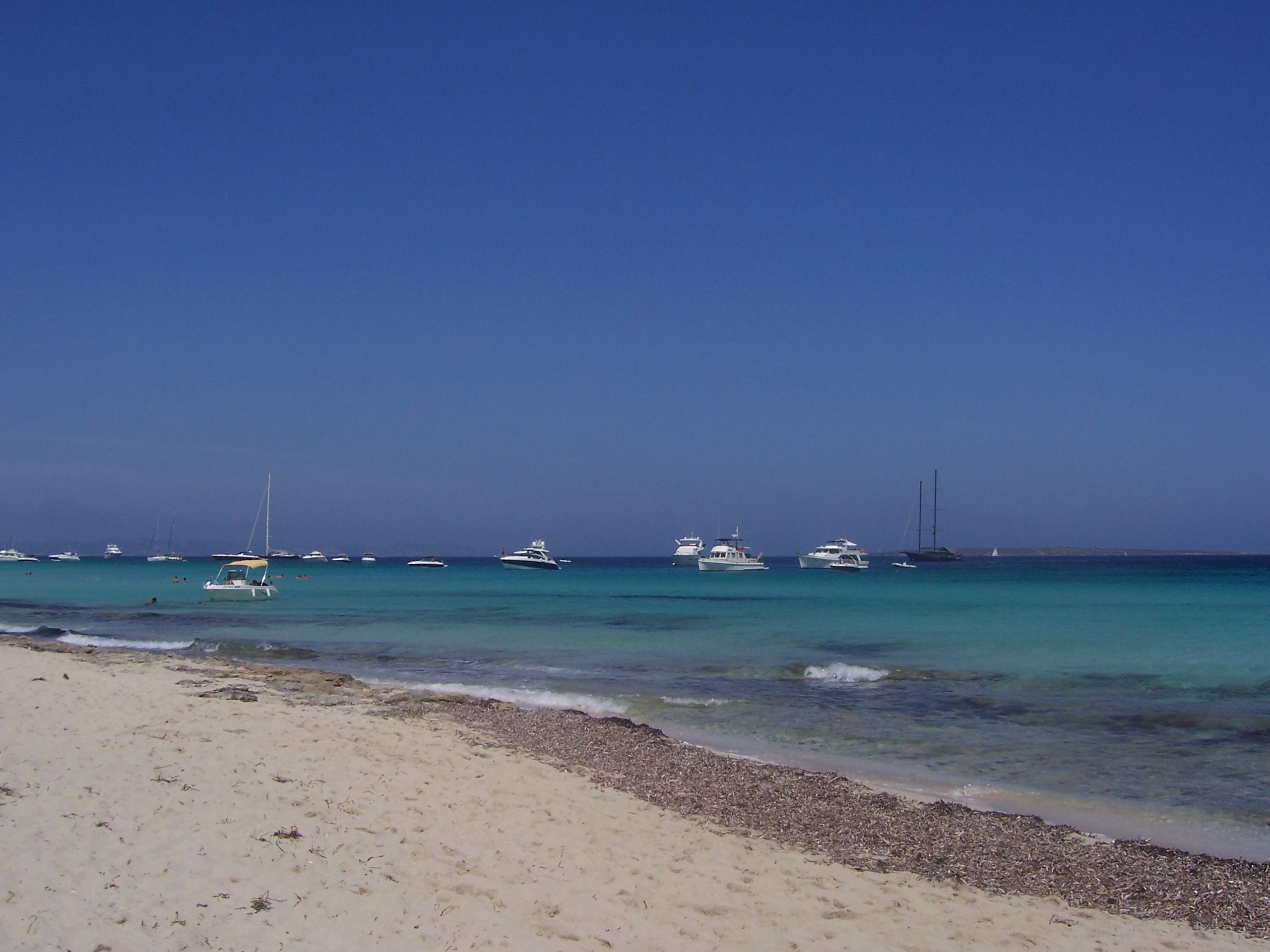 Formentera, platja de Llevant